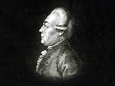 Portrait of Gottfried van Swieten (1733-1803), Austrian politician and librarian